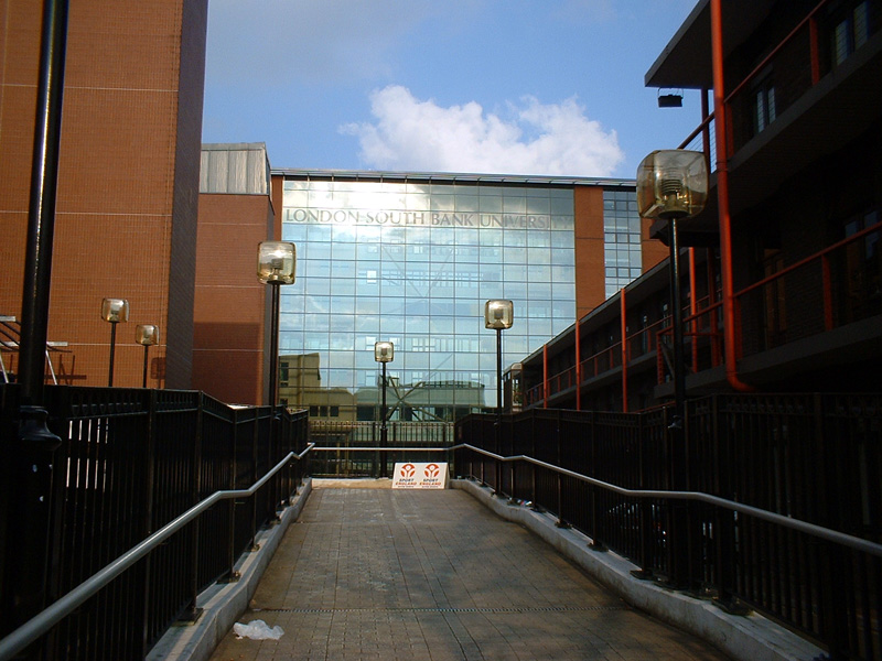 London Southbank University taken on 29th Feb 04 by C Ford.